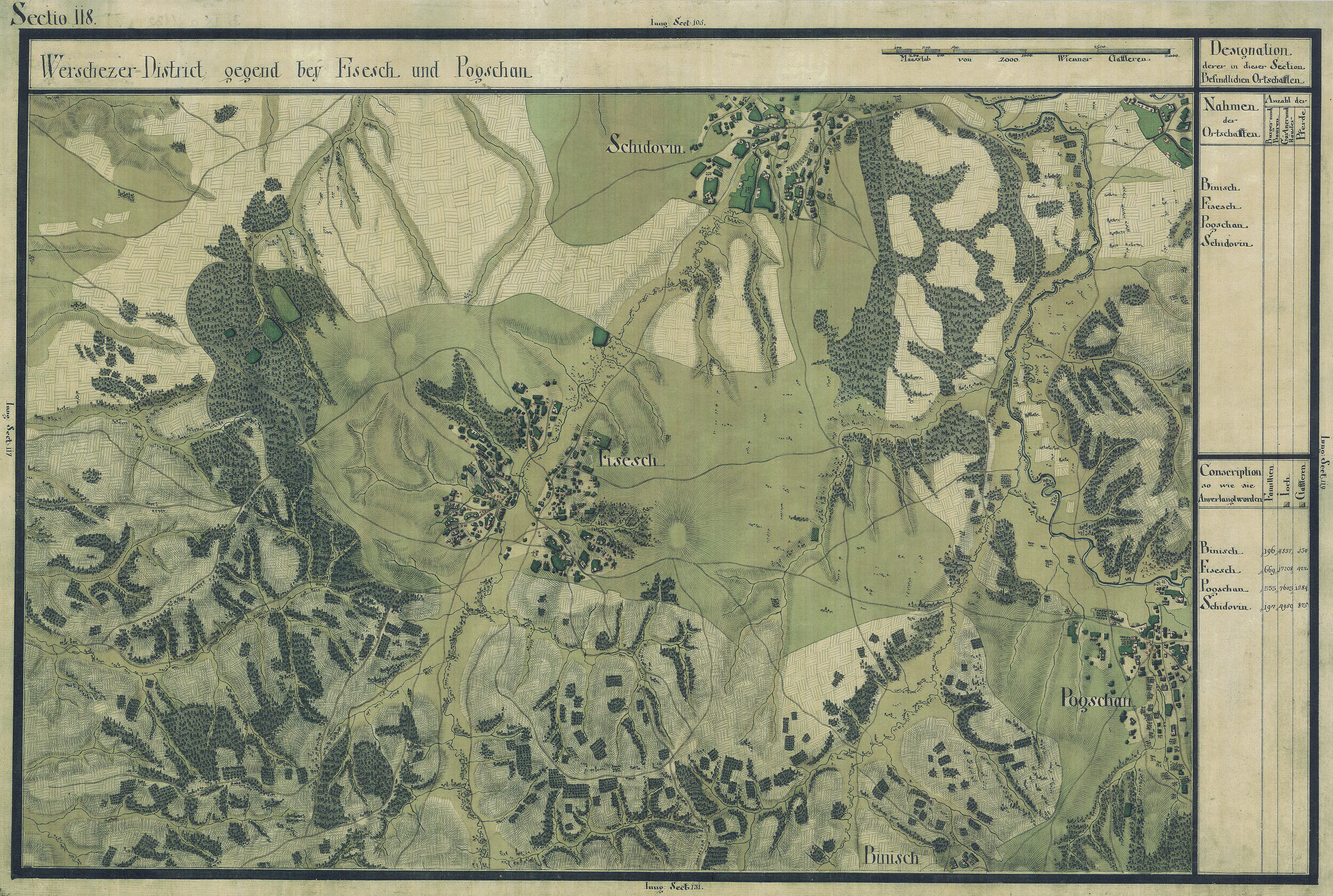 The Banat region in the cadastral maps: Josephinische Landesaufnahme, 1769-72. Josephinische Landaufnahme pg118